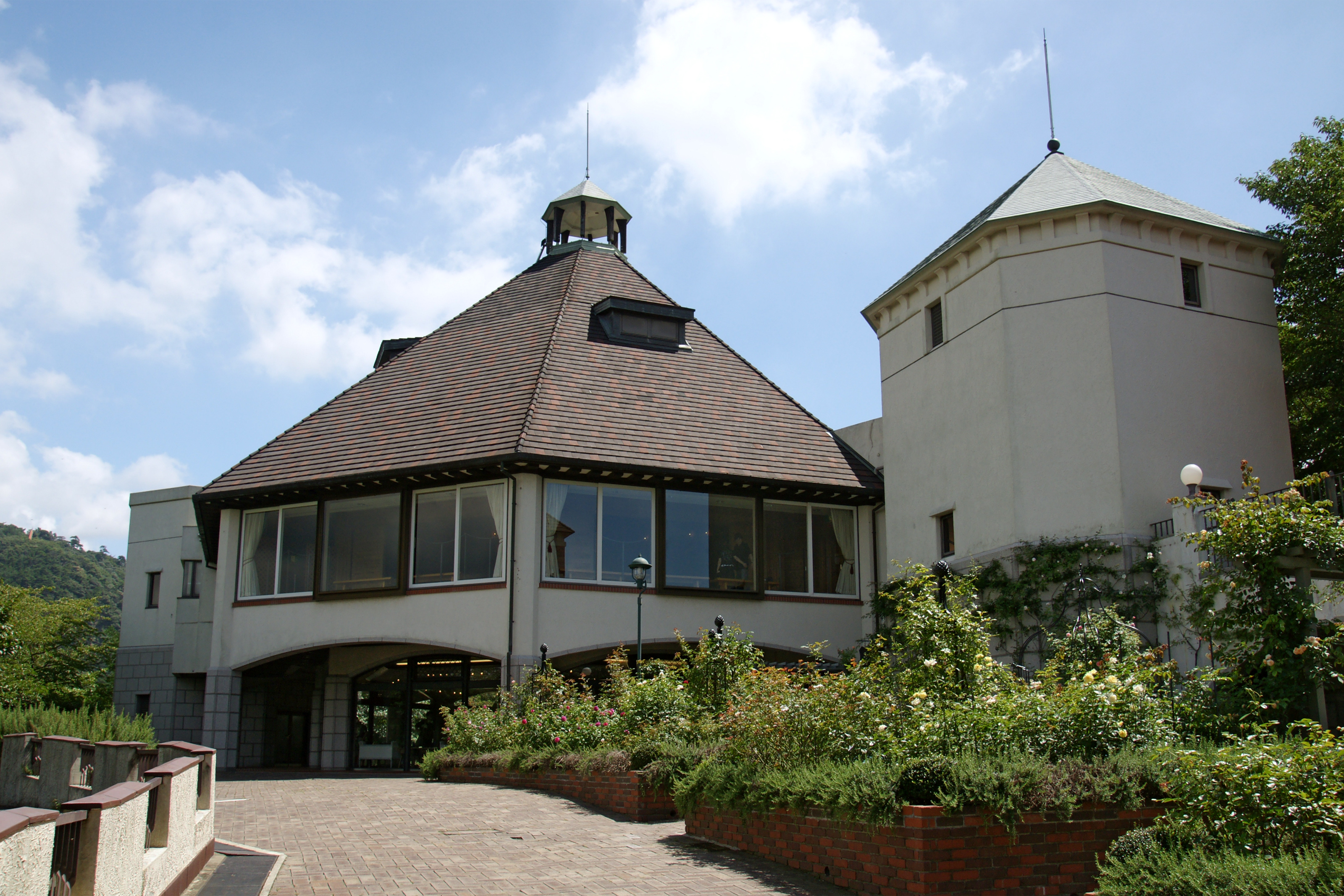 Nunobiki Herb Garden in Kobe, Hyogo prefecture, Japan